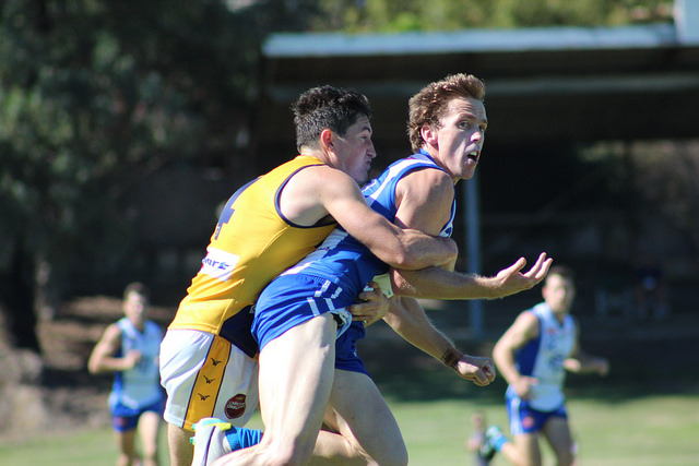 Bradd Dalziell playing for East Fremantle Football Club, April 2014